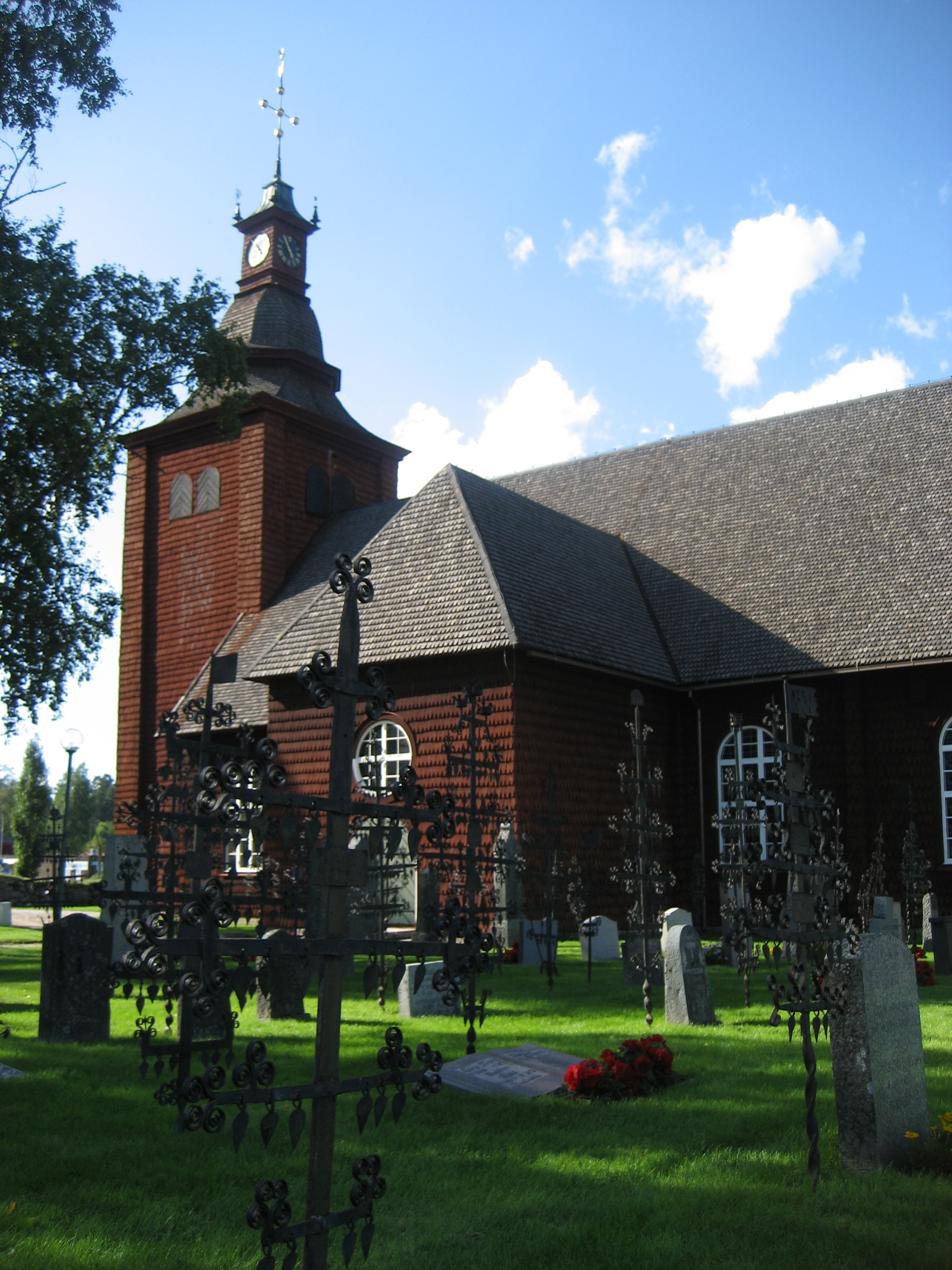 Ekshärad church